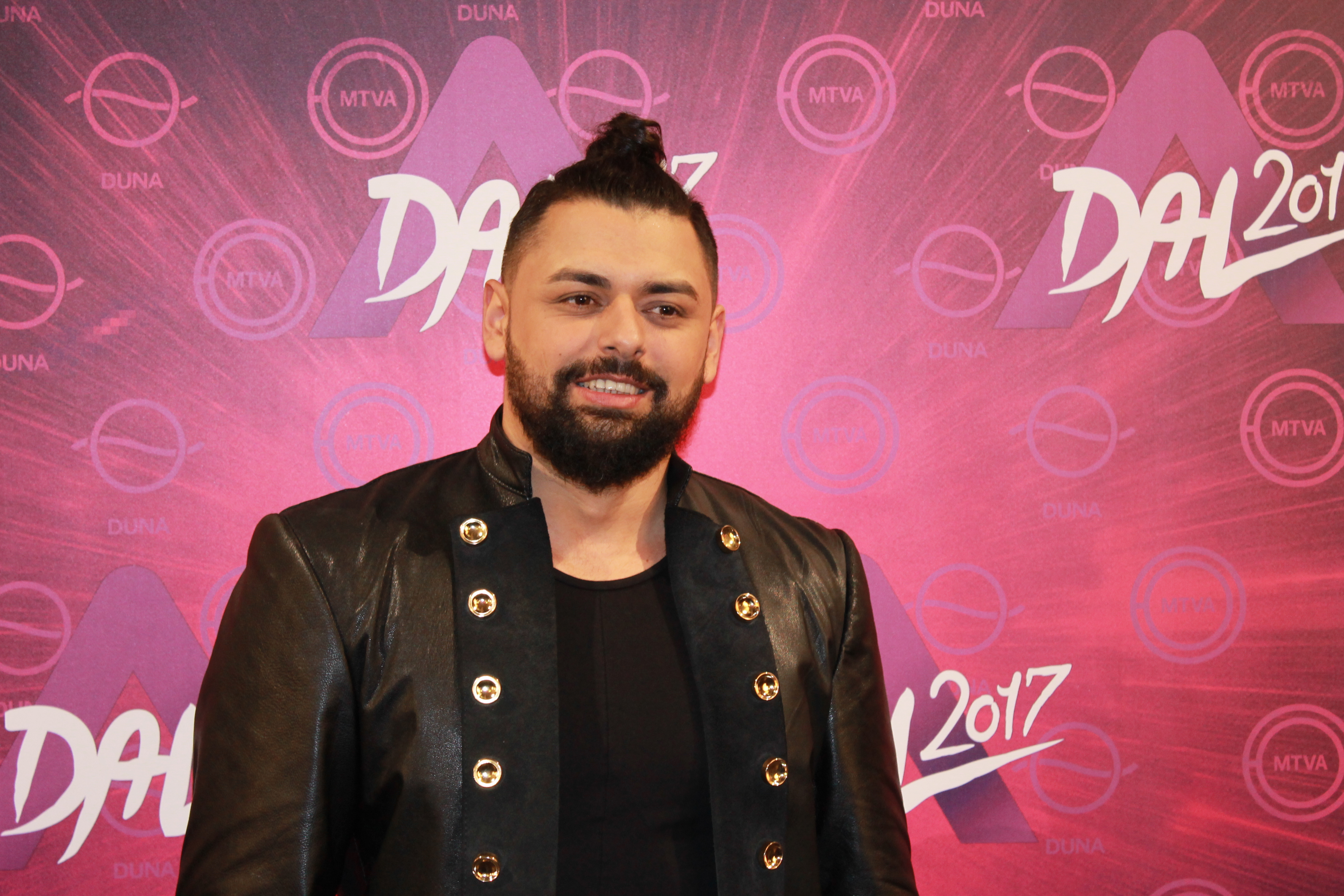 A Dal 2017 participant: Joci Pápai